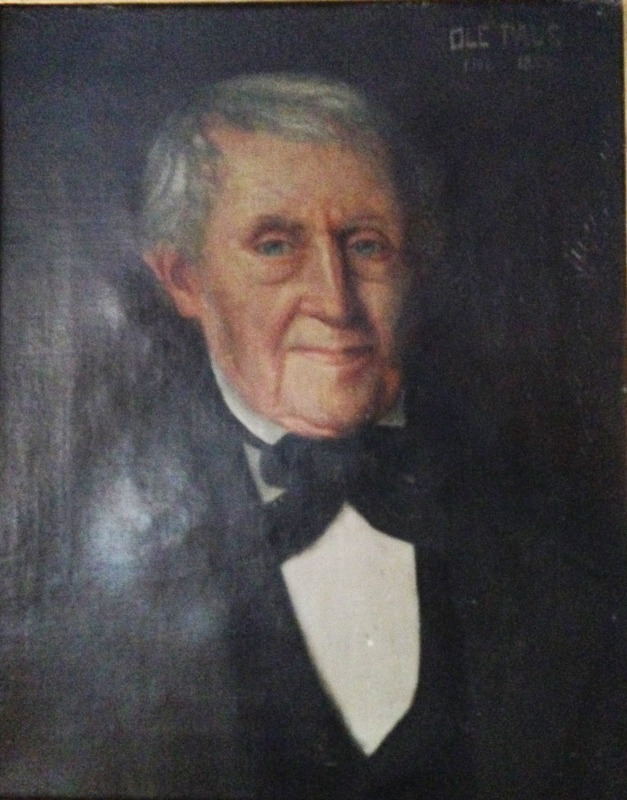 Captain and ship-owner Ole Paus (1766–1855), of Skien, Norway. He was the stepfather of Knud Ibsen, and the "social" grandfather of the playwright Henrik Ibsen.